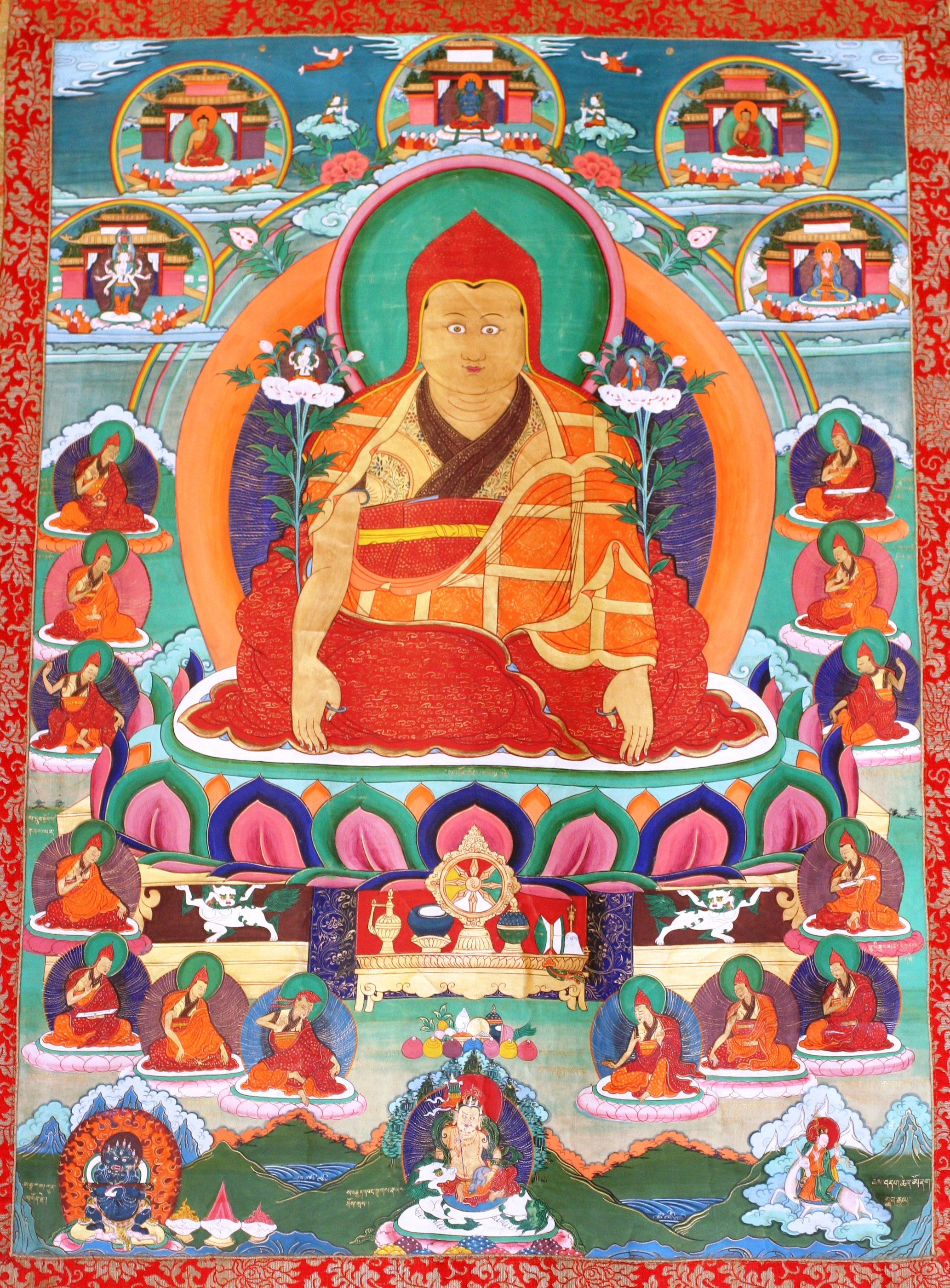 portrait of Jonang lama Dolpopa Sherab Gyaltsen (1292–1361)